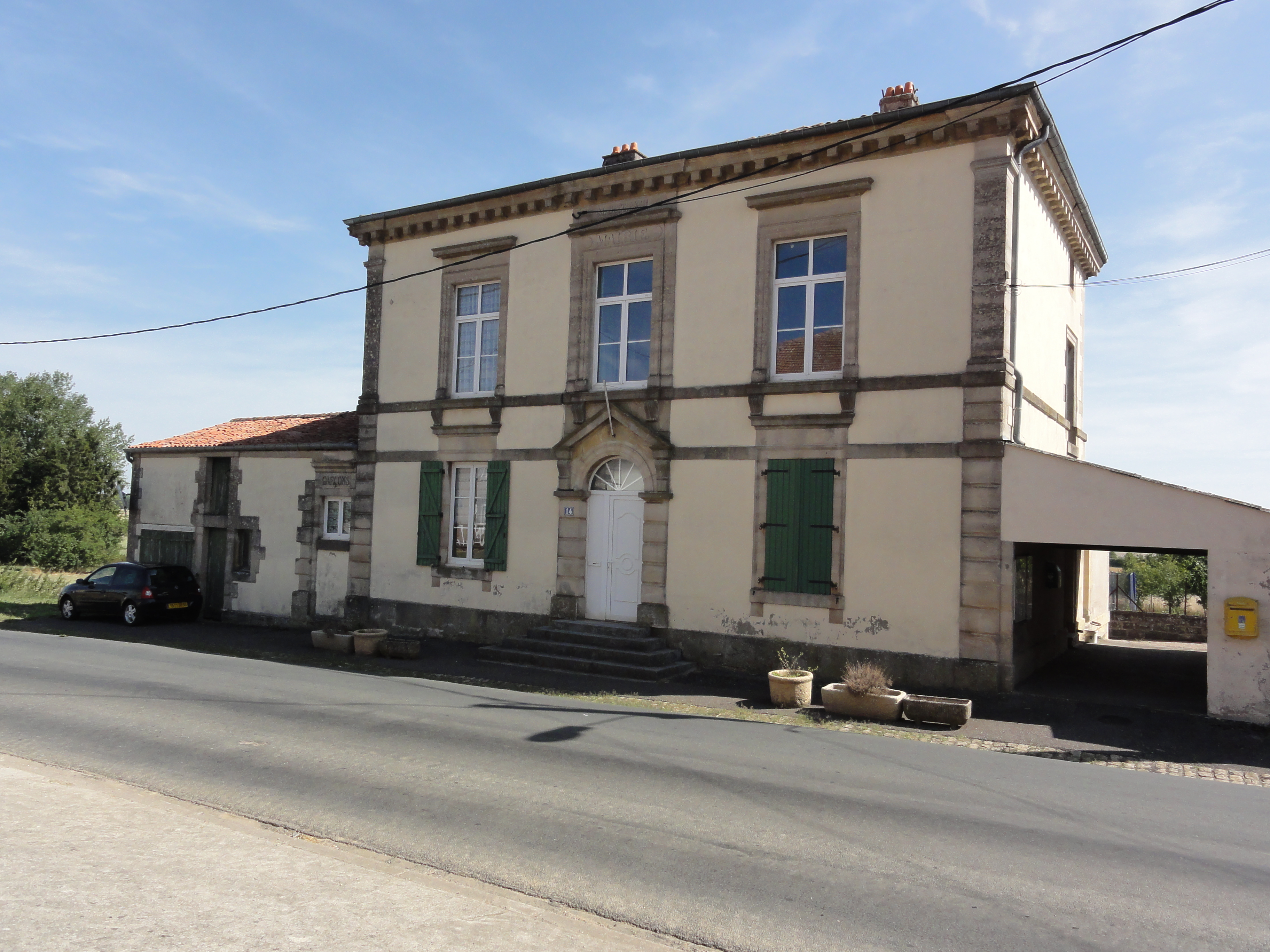 Vaudoncourt (Meuse) mairie-école